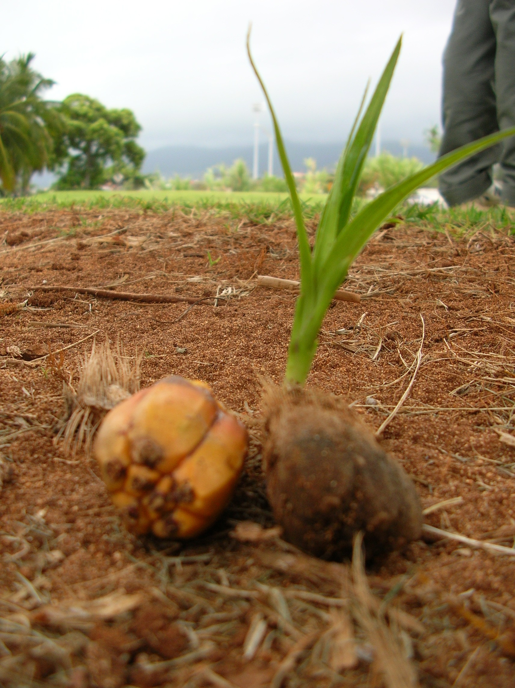 Pandanus tectorius (seedling). Location: Maui, Maui Nui Botanical Garden